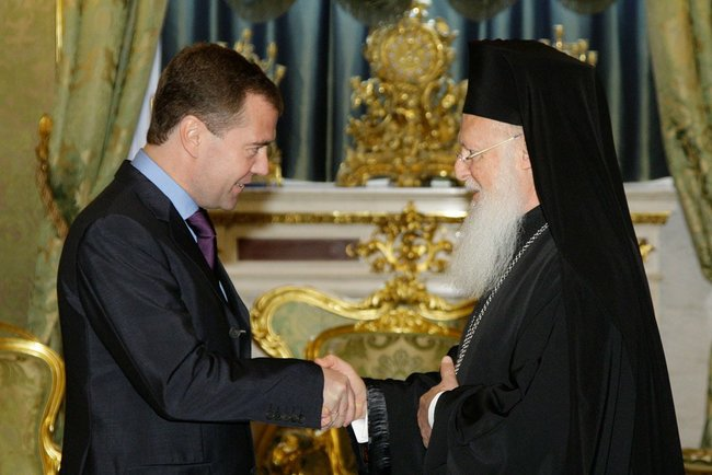 Patriarch Bartholomew of Constantinople meets President Medvedev on his trip to Russia